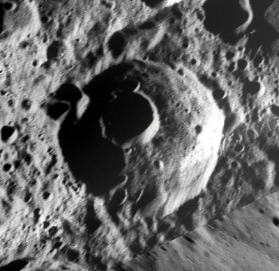 Bredikhin crater